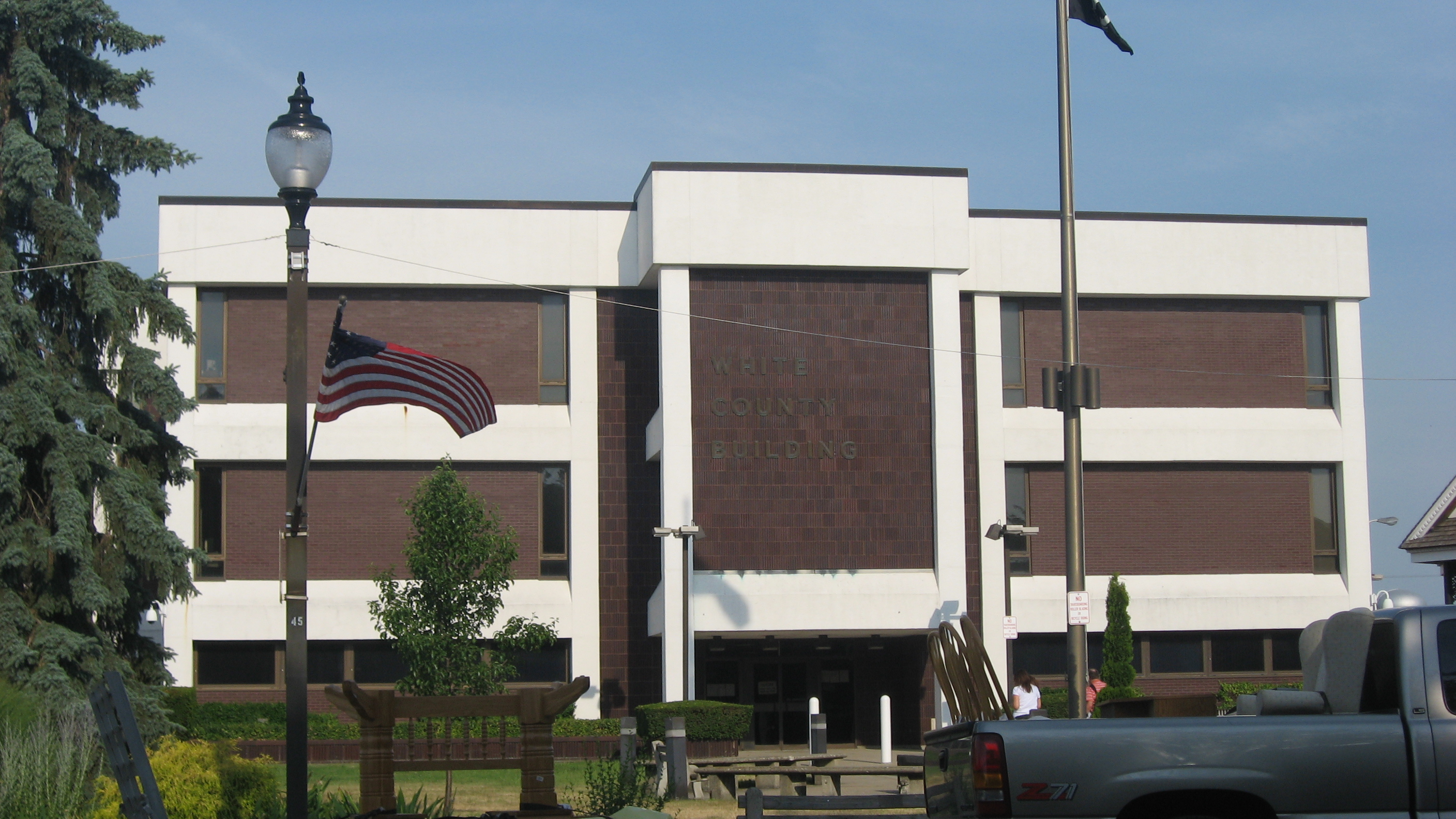 Eastern front of the White County Courthouse, located at 110 N. Main Street in Monticello, Indiana, United States. It was built in 1976 to replace a historic courthouse that was destroyed by one of the tornadoes of the Super Outbreak in April 1974.